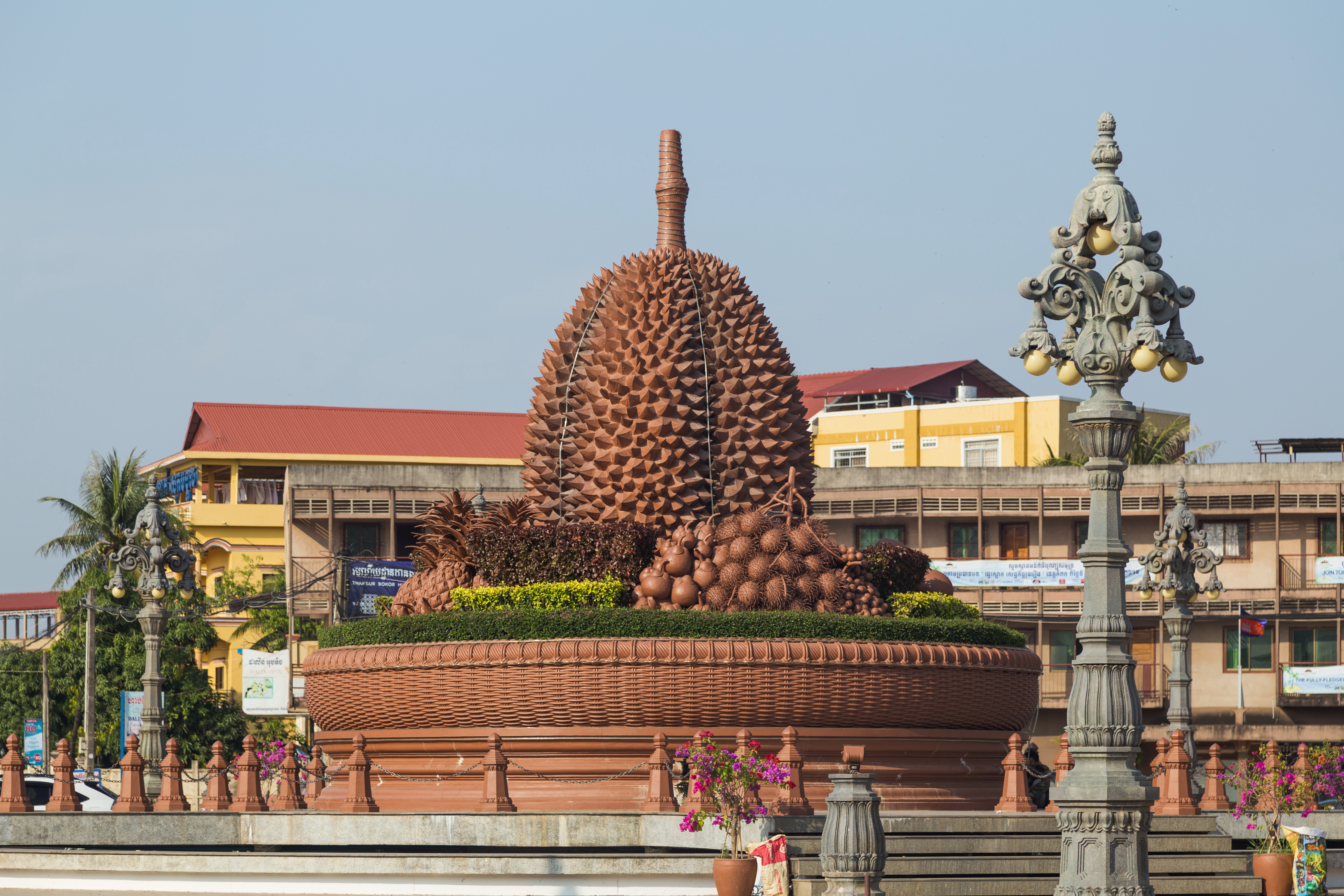 Durian Roundabout. Kampot, Cambodia.